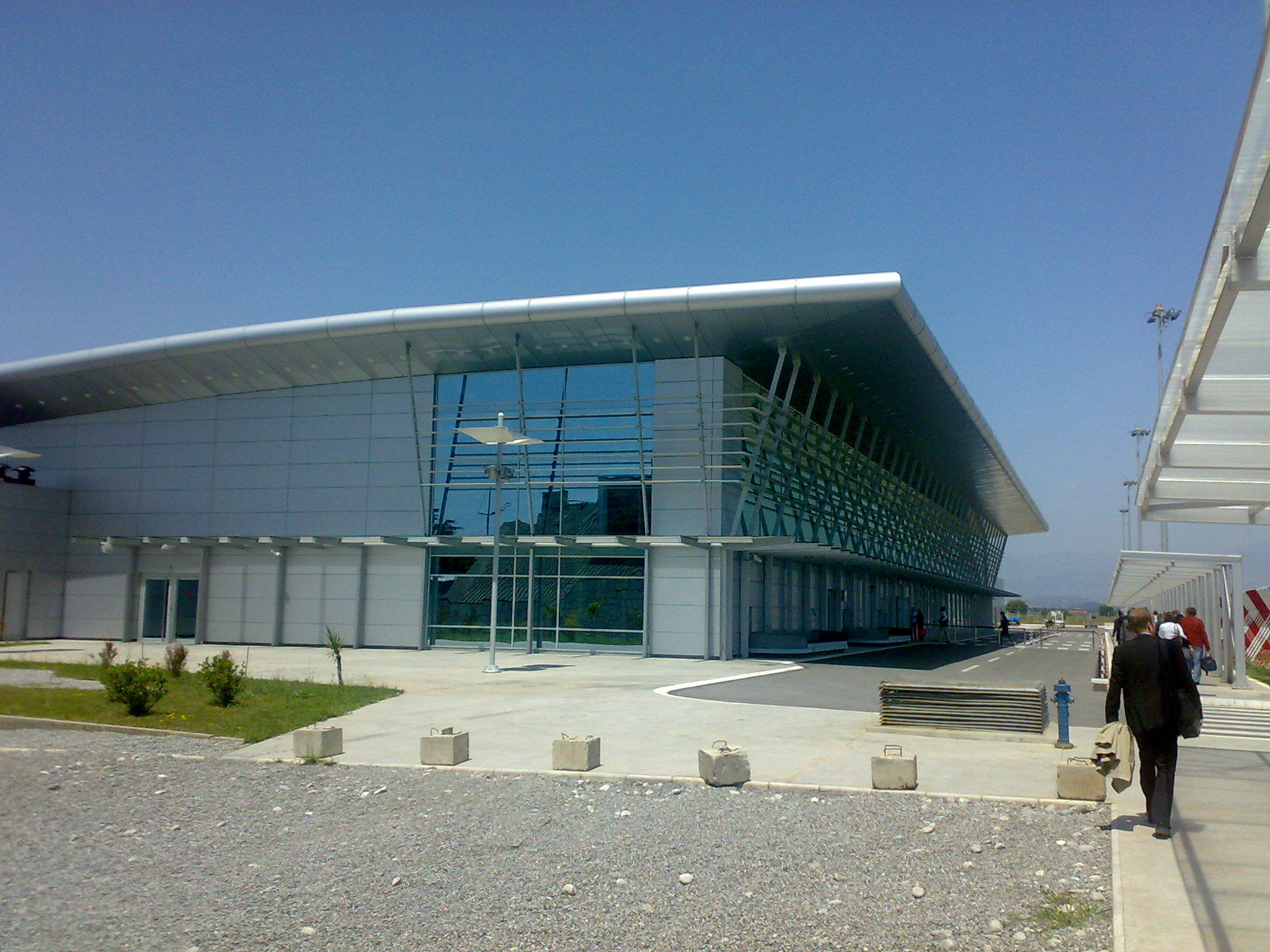 New hall of Podgorica Airport